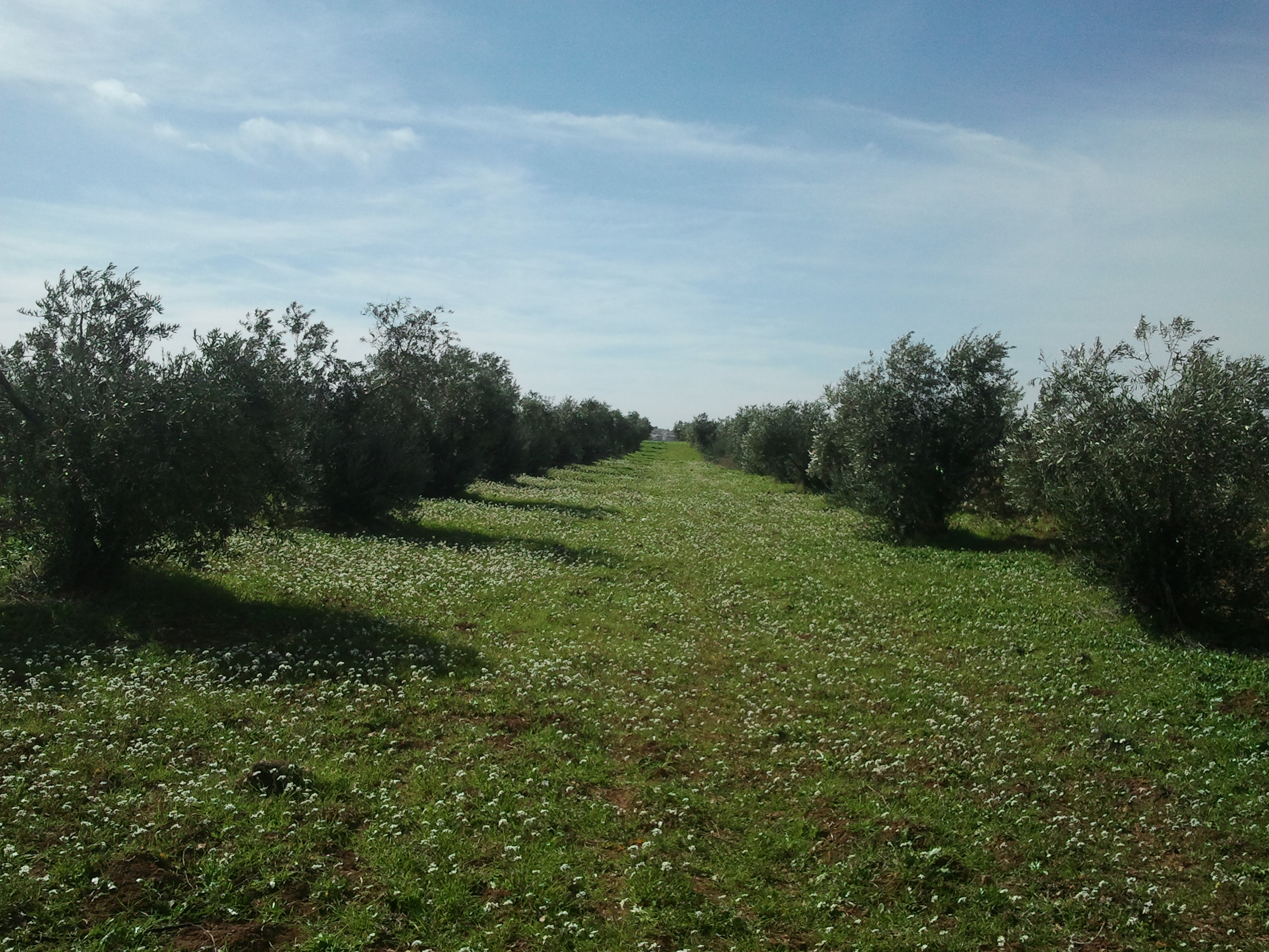 منظر للمنطقة الشمالية من بلدة الشجرة (المندسة) في الربيع